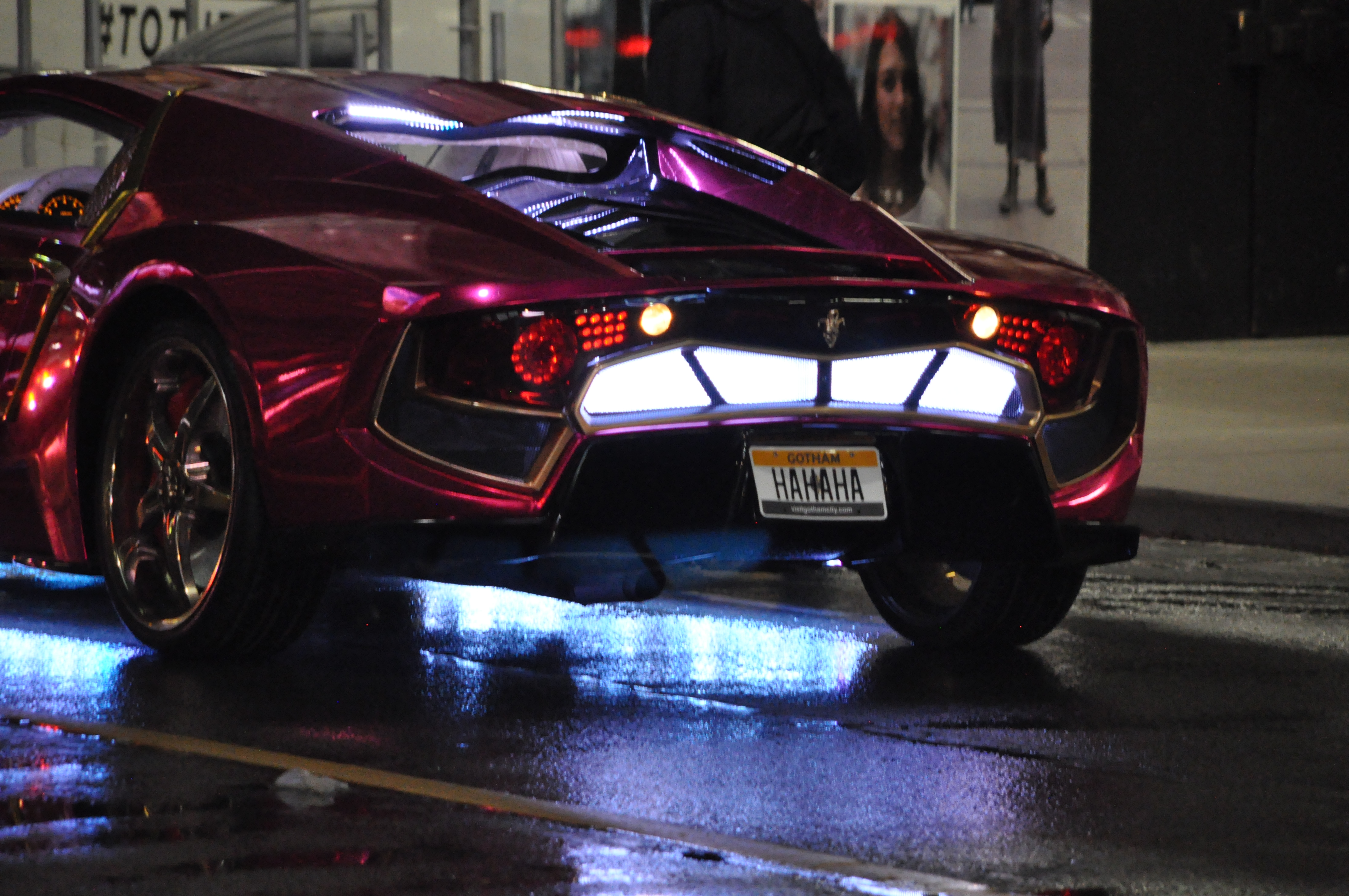 Suicide Squad filming in Toronto.